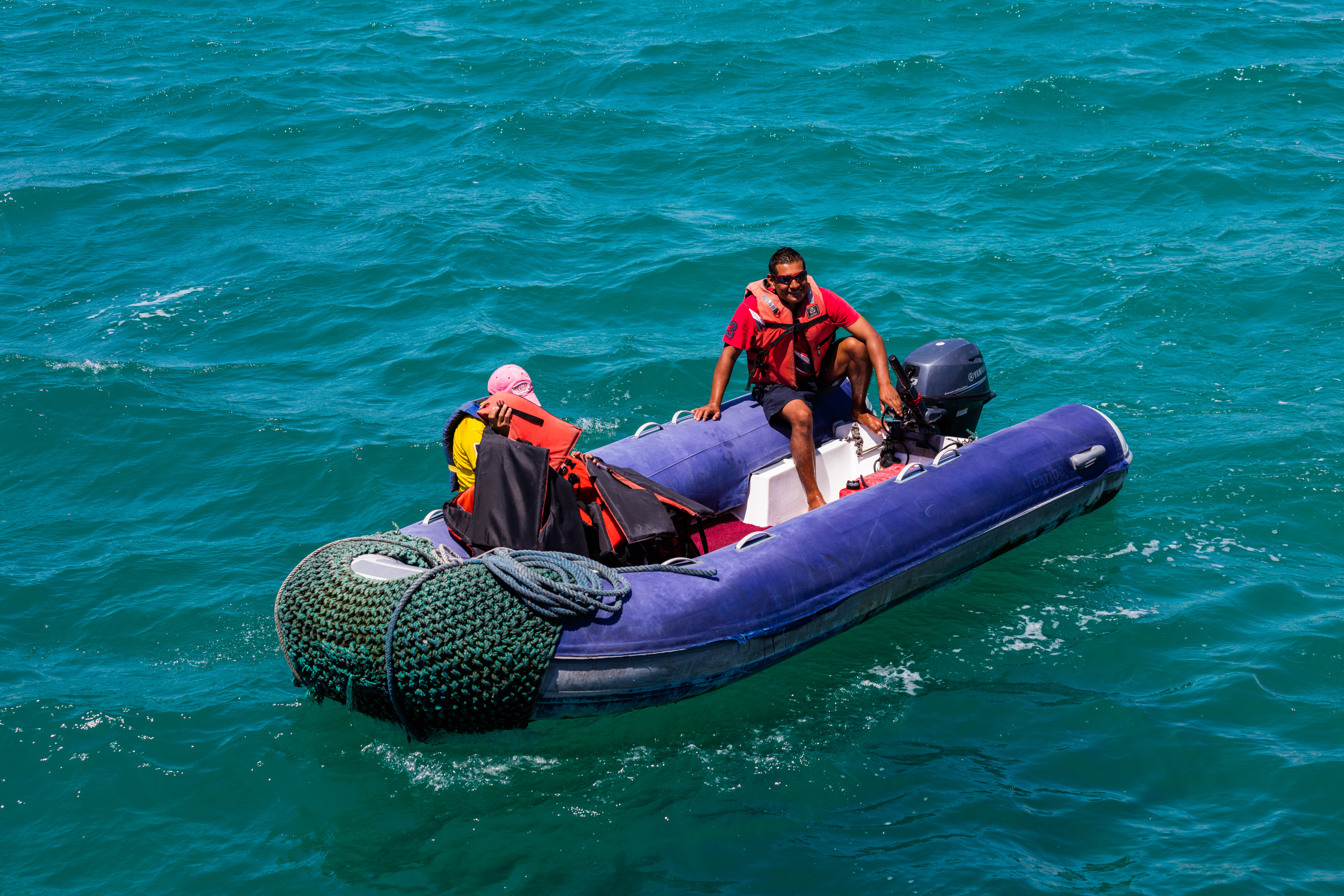 Boat of the Darwin yacht, Baltra island, Galapagos islands, Ecuador